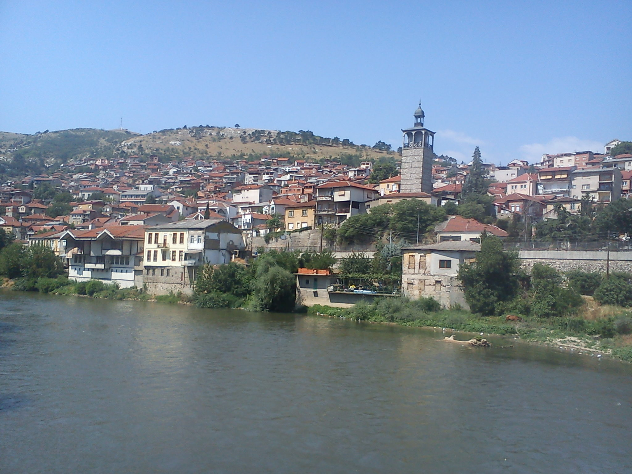 Veles, Macedonia